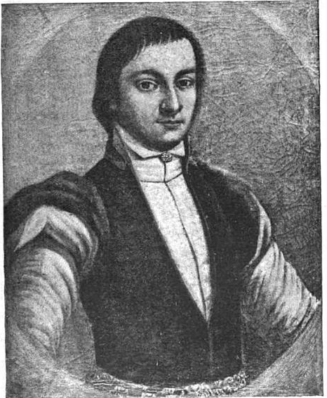 Jan Suchorzewski (d. 1809). (Z portretu olejnego w posiadaniu wnuka jego Franciszka)